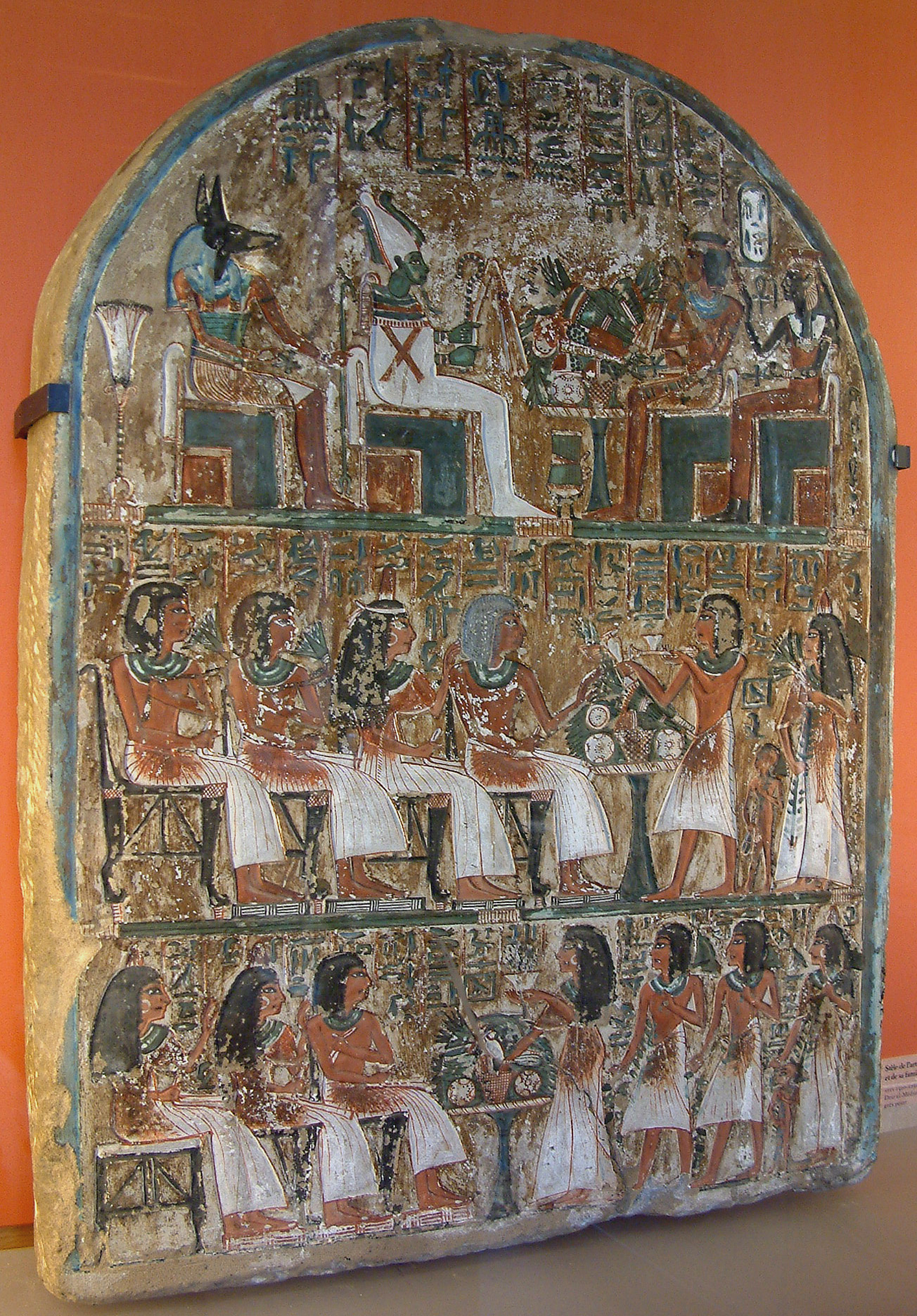 Stele of Irynefer, an artisan who worked for the royal tombs, and of his family. Under the arch, from left to right: Anubis, Osiris, Amenhotep I and his mother Ahmose-Nefertari. Amenhotep I (d. 1504 BC) supposedly founded the artisan community for the royal tombs (now Deir al-Madinah), who took him as its tutelar god. Sandstone, New Kingdom period, found in the tomb of Irynefer in Deir al-Madinah.